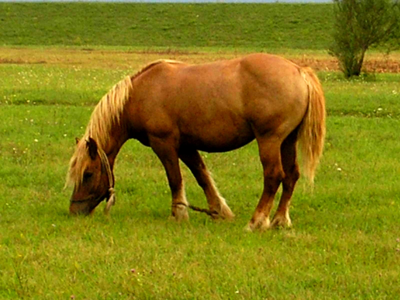 An unidentified horse breed from Croatia